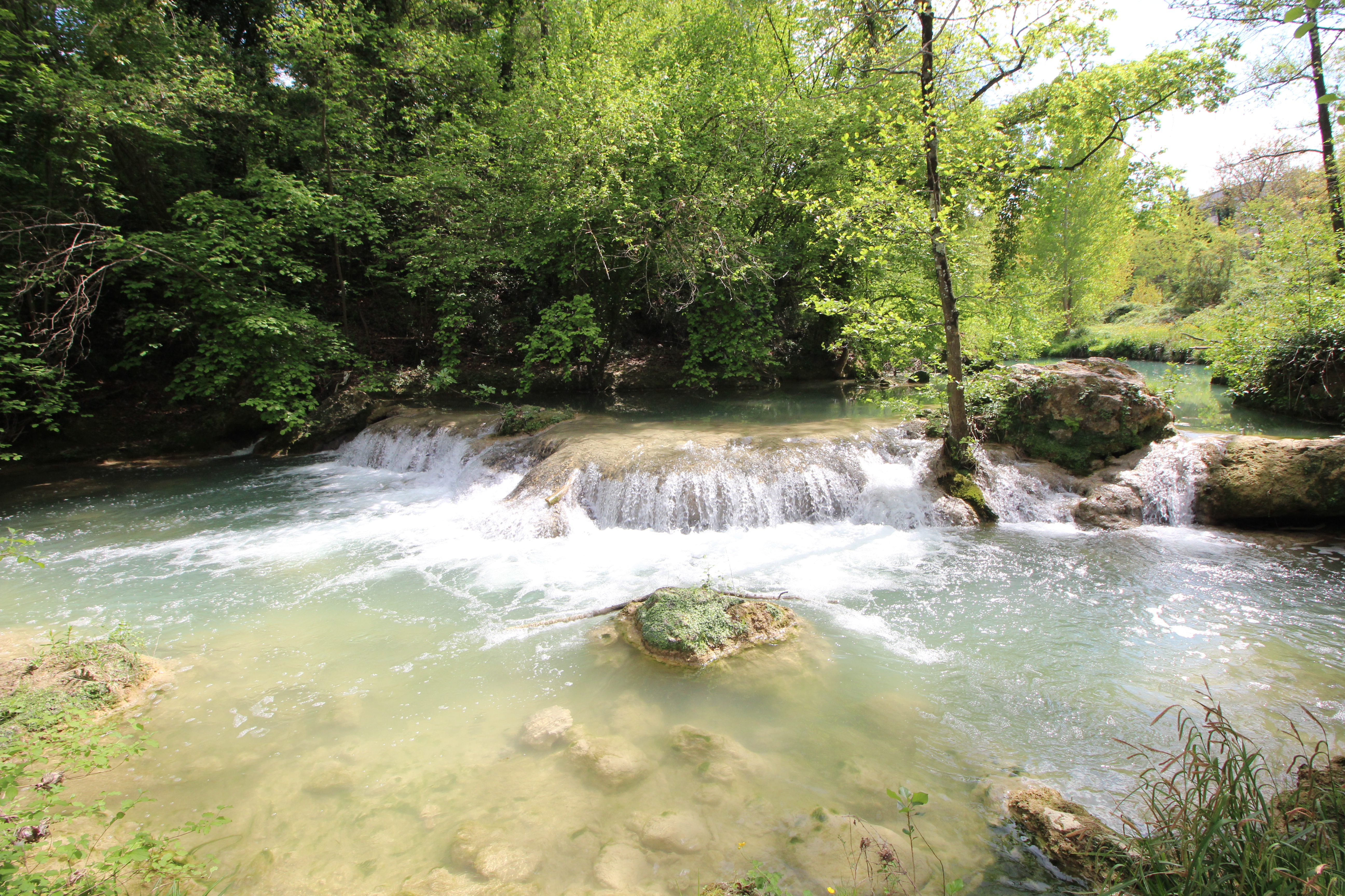 Nature Park Area naturale protetta di interesse locale Parco Fluviale dell'Alta Val d'Elsa, on the River Elsa, Colle di Val d'Elsa, Province of Siena, Tuscany, Italy